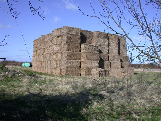 Straw Bale Castle